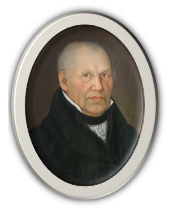 Book cover Johann Melchior Kubli